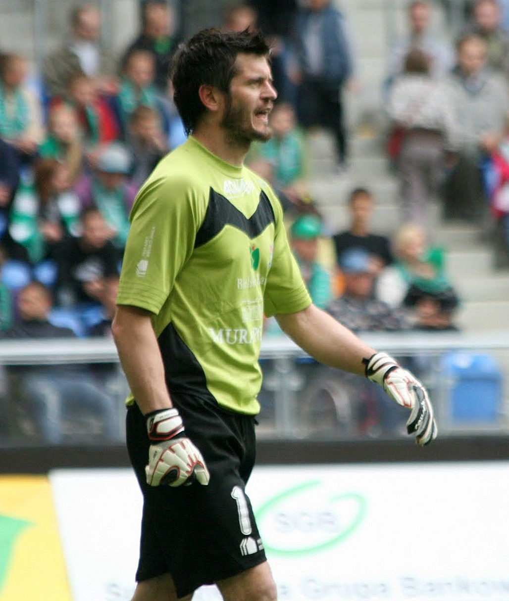 Slovak football goalkeaper Richard Zajac